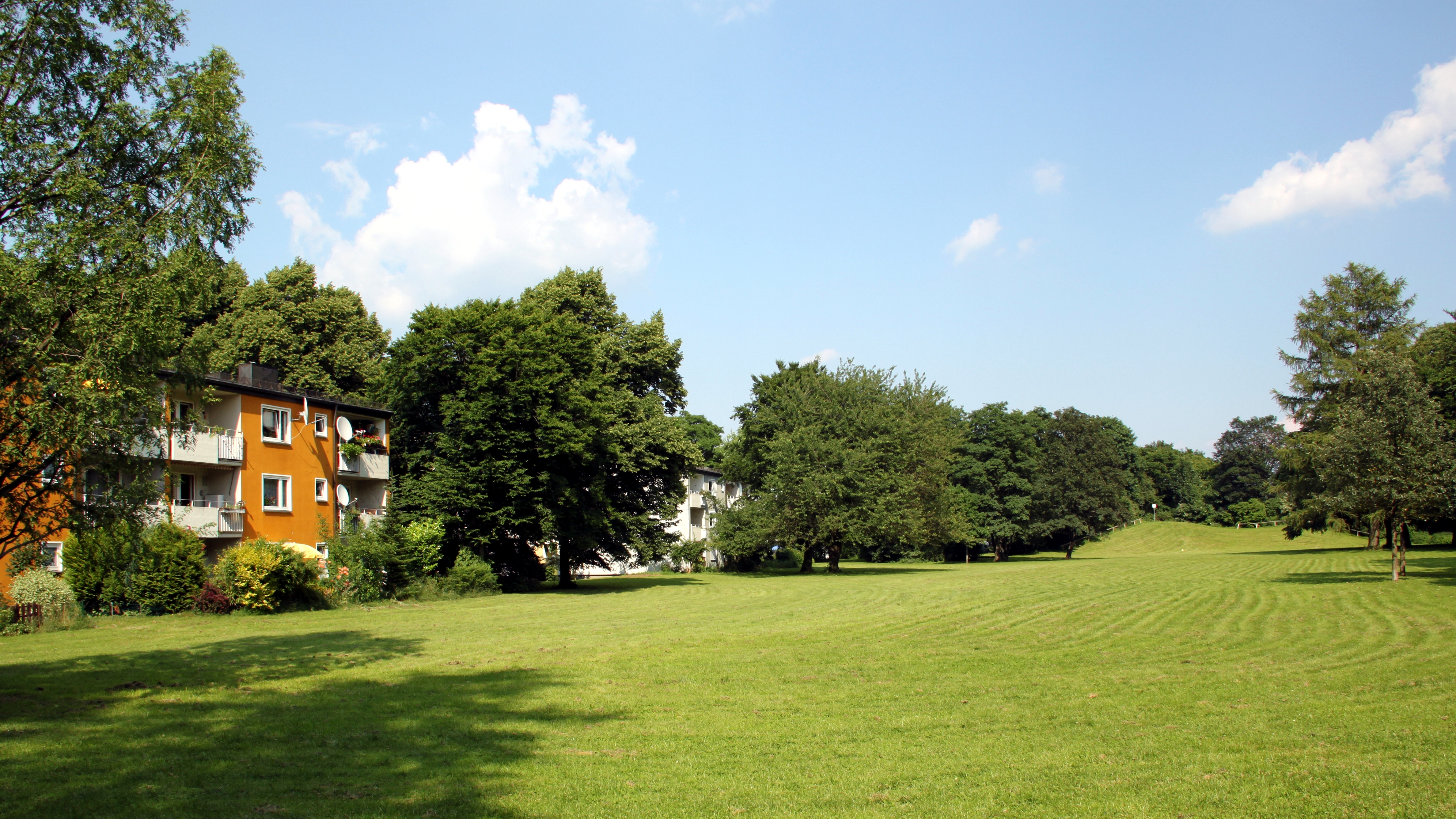 München-Laim: "Alte Heimat" housing scheme